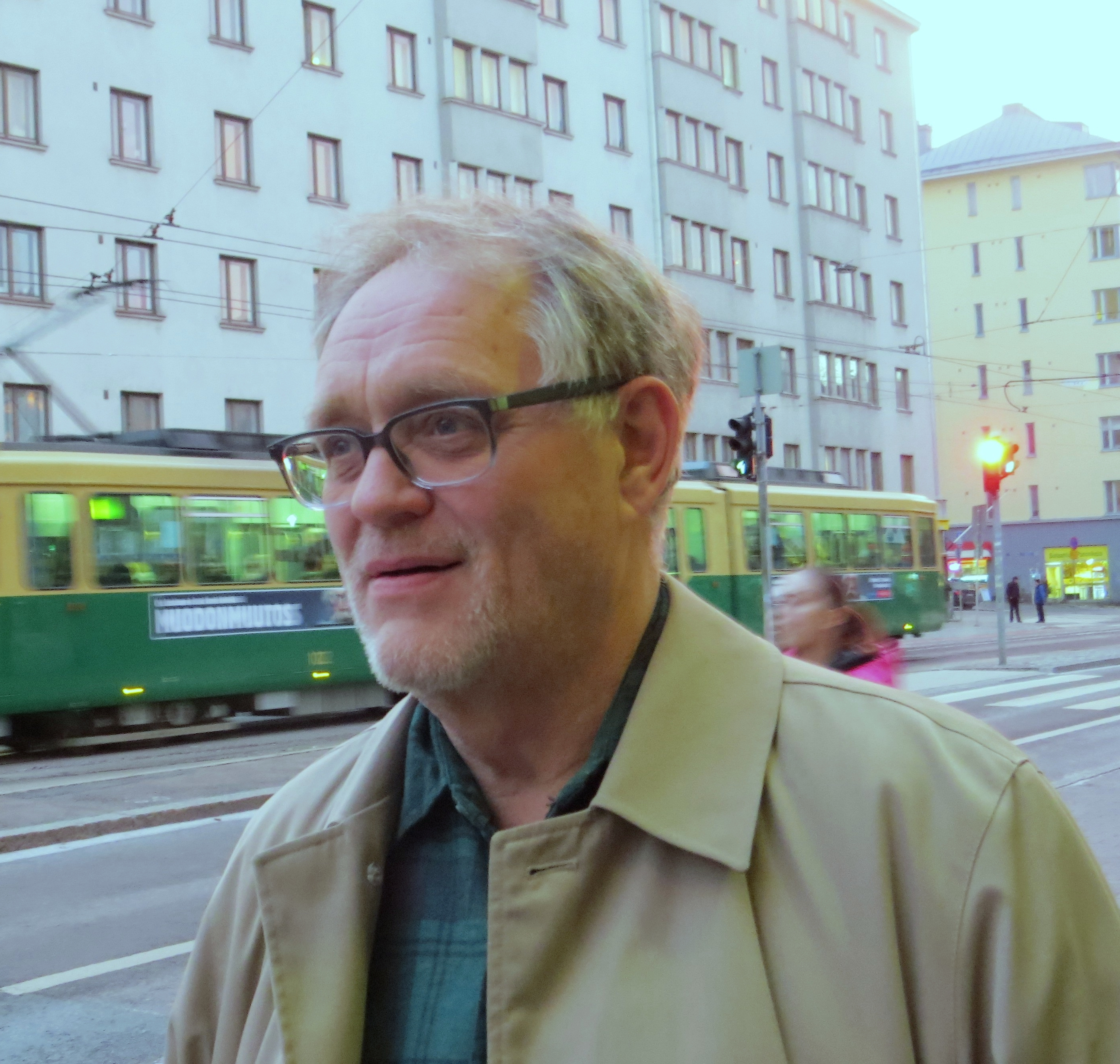 A Finnish researcher Jöns Carlson